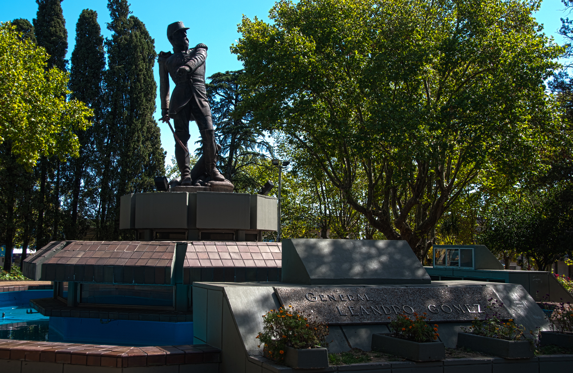 Statue of General Leandro Gómez on the mausoleum that holds his bones.